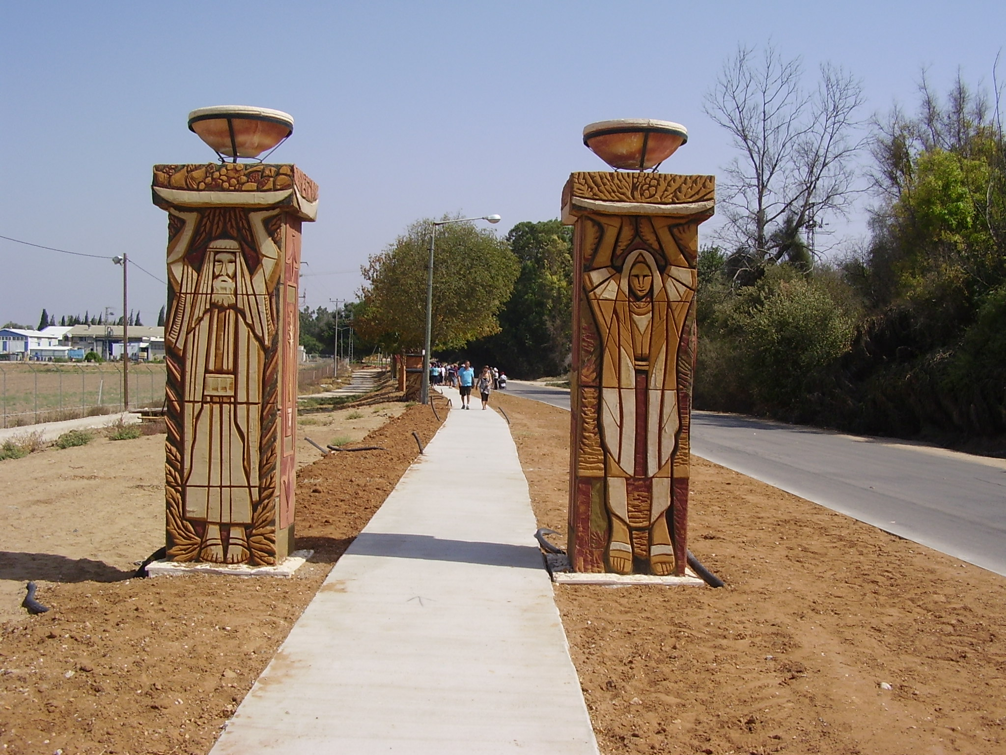 entrance to the seven species avenue in kibbutz or-haner כניסה לשדרת שבעת המינים בקיבוץ אור הנר